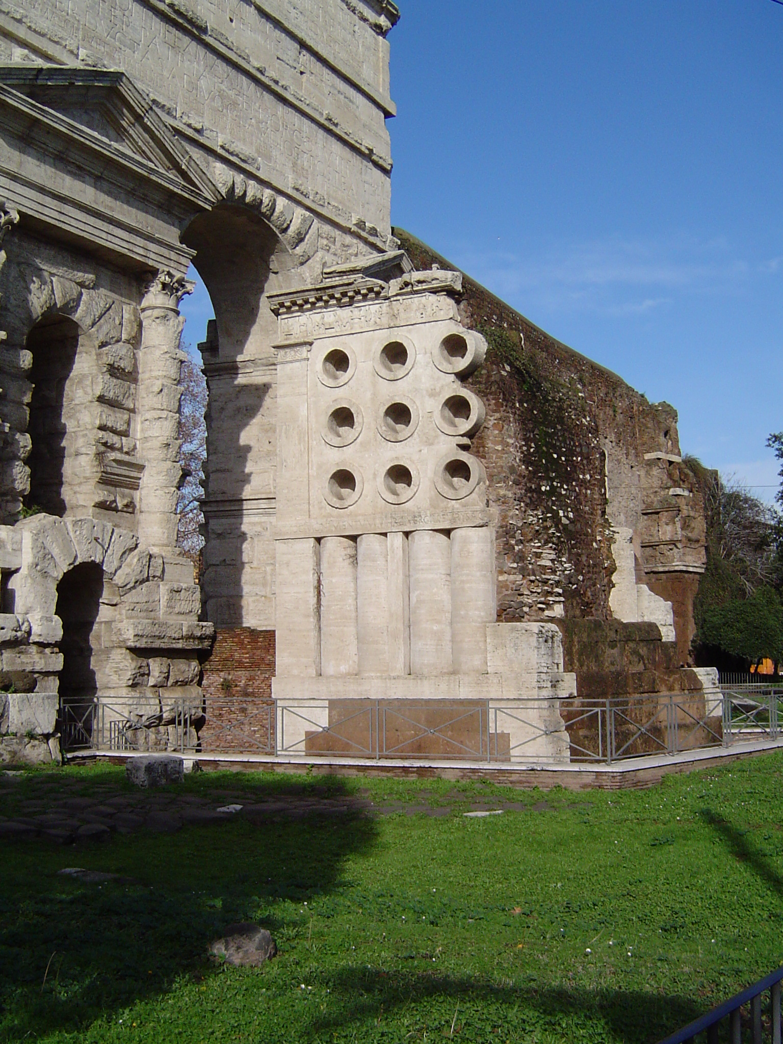 Porta Maggiore with the tomb of Eurysaces Rome, Italy. Made by Joris van Rooden on 03-01-2006